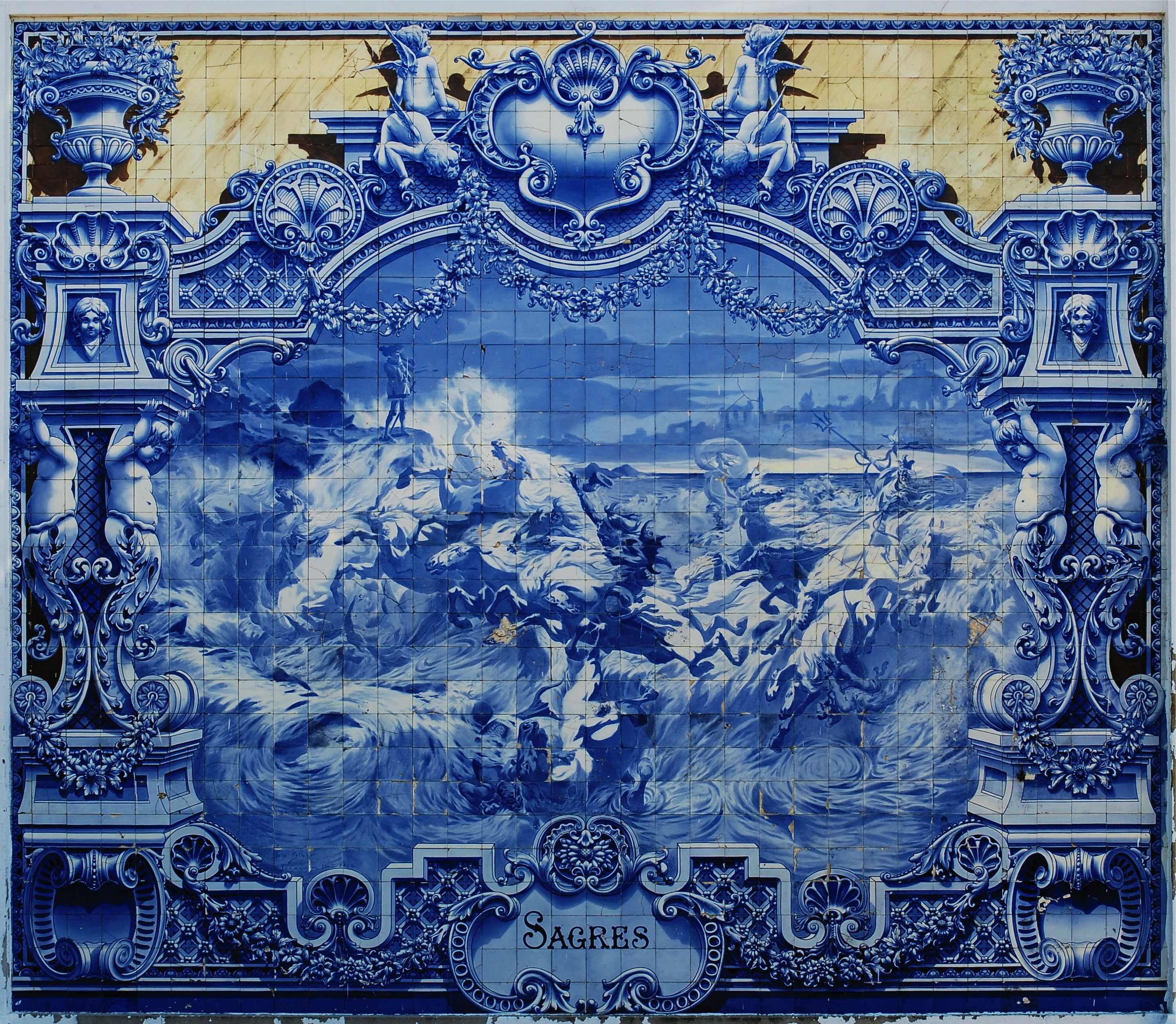 Panel of glazed tiles by Jorge Colaço (1922), representing Henry the Navigator at the Sagres Promonory. Lisbon, Pavilhão Carlos Lopes.